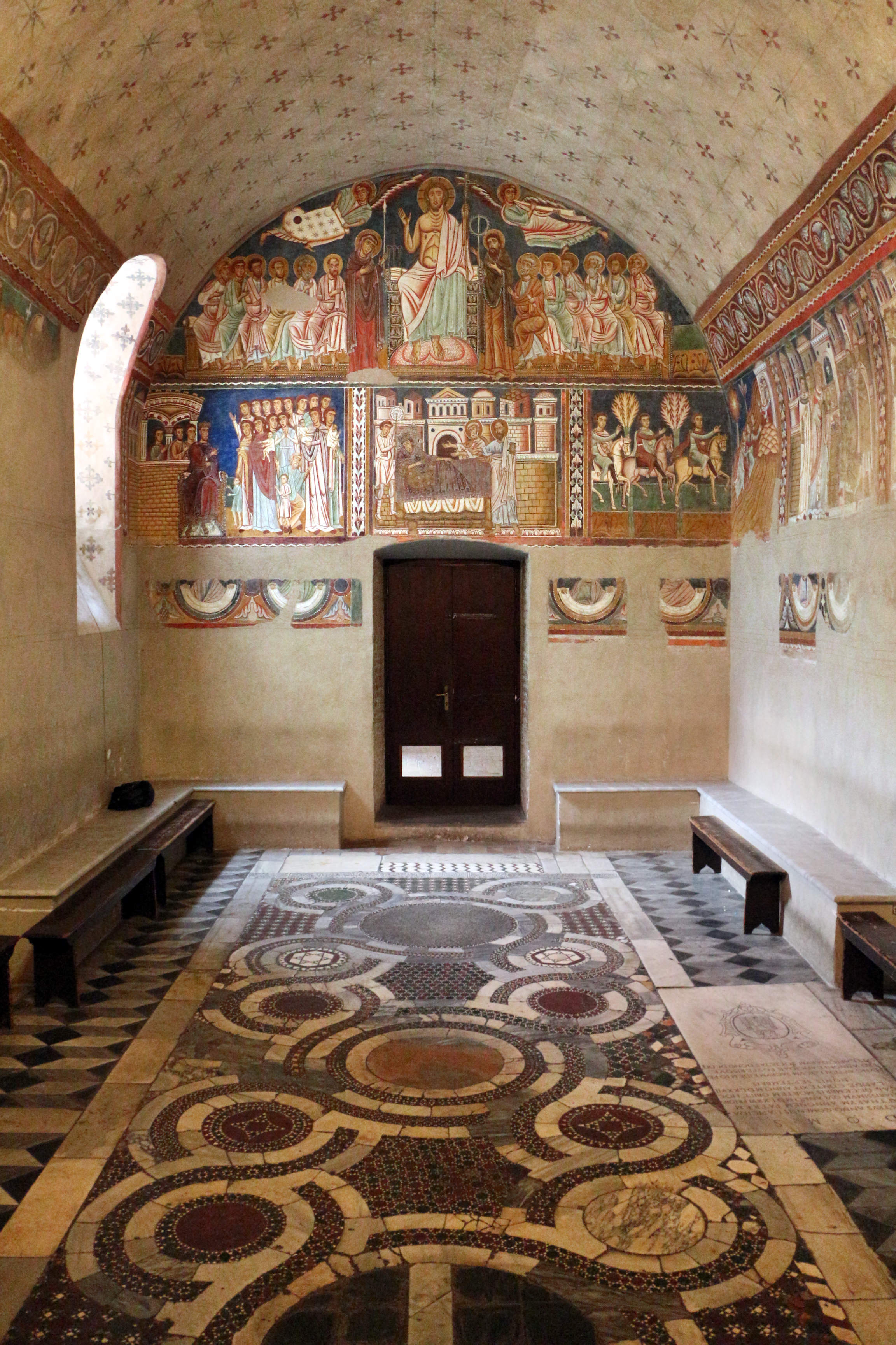 Pope Sylvester frescos, Santi Quattro Coronati